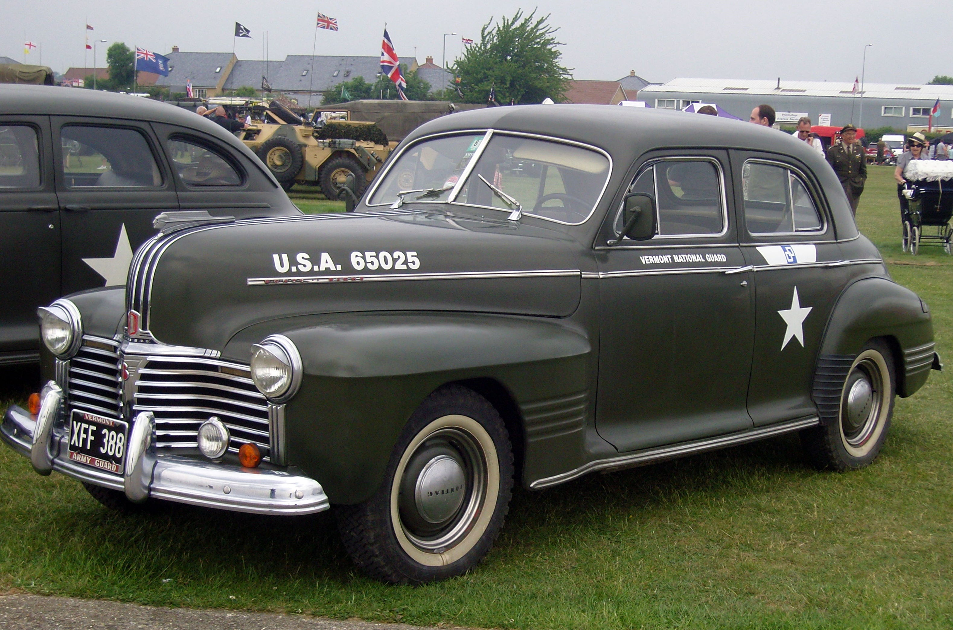 Photographed at Duxford Military Vehicle Show 6th June 2010